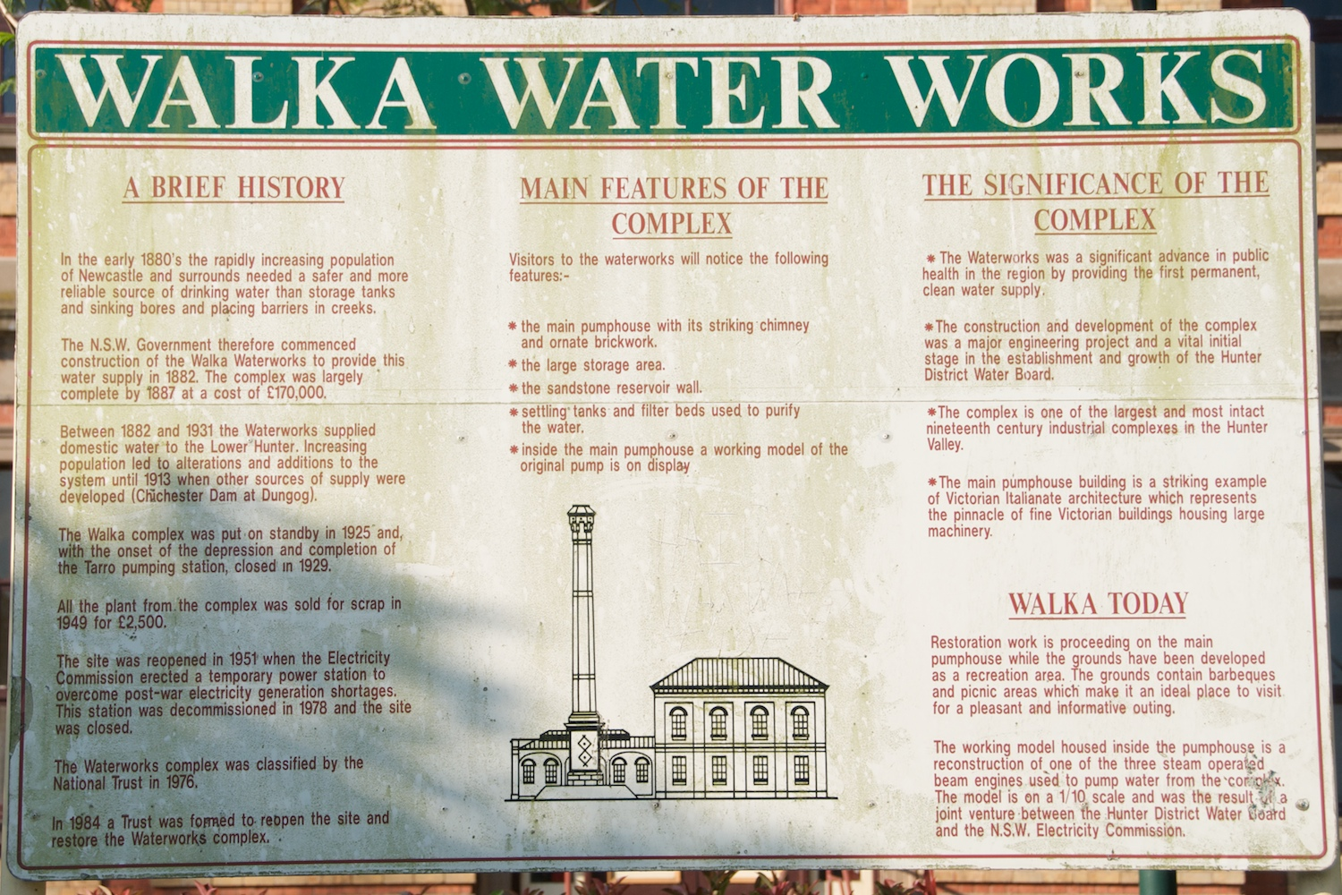 Description sign from Walka Water Works, Maitland, NSW, Australia